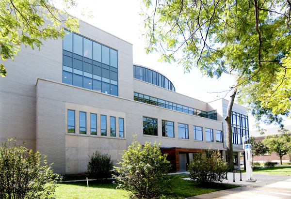 Outside view of new Chicago Theological Seminary building